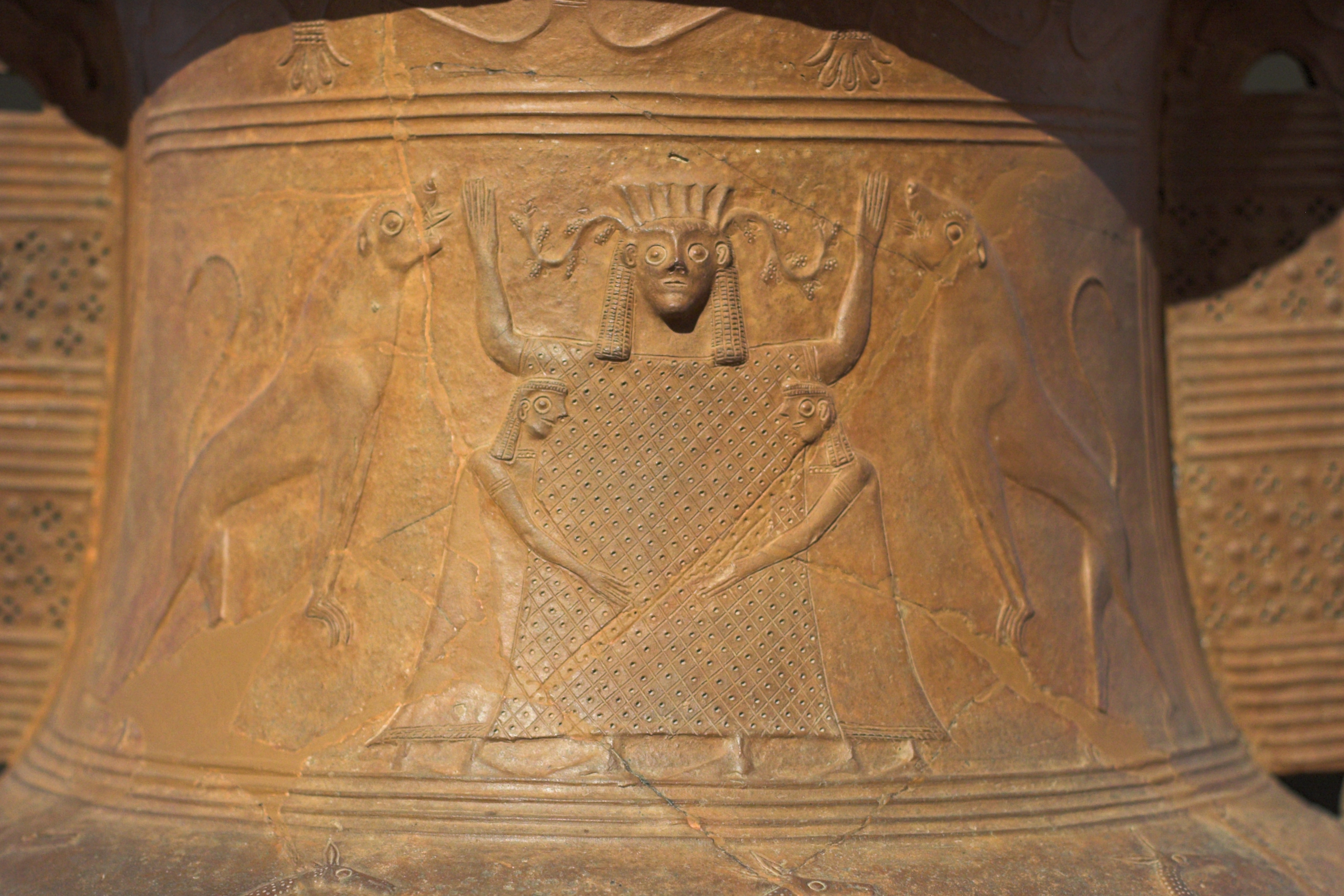 Pithos with relief of the goddess and animals. Found in Thebes, but comes from some Cycladic workshop, possibly of Naxos, from the years 625-600 BC. Mighty mistress of animals (Potniai theron) and nature. National Archaeological Museum of Athens, NAMA 355.